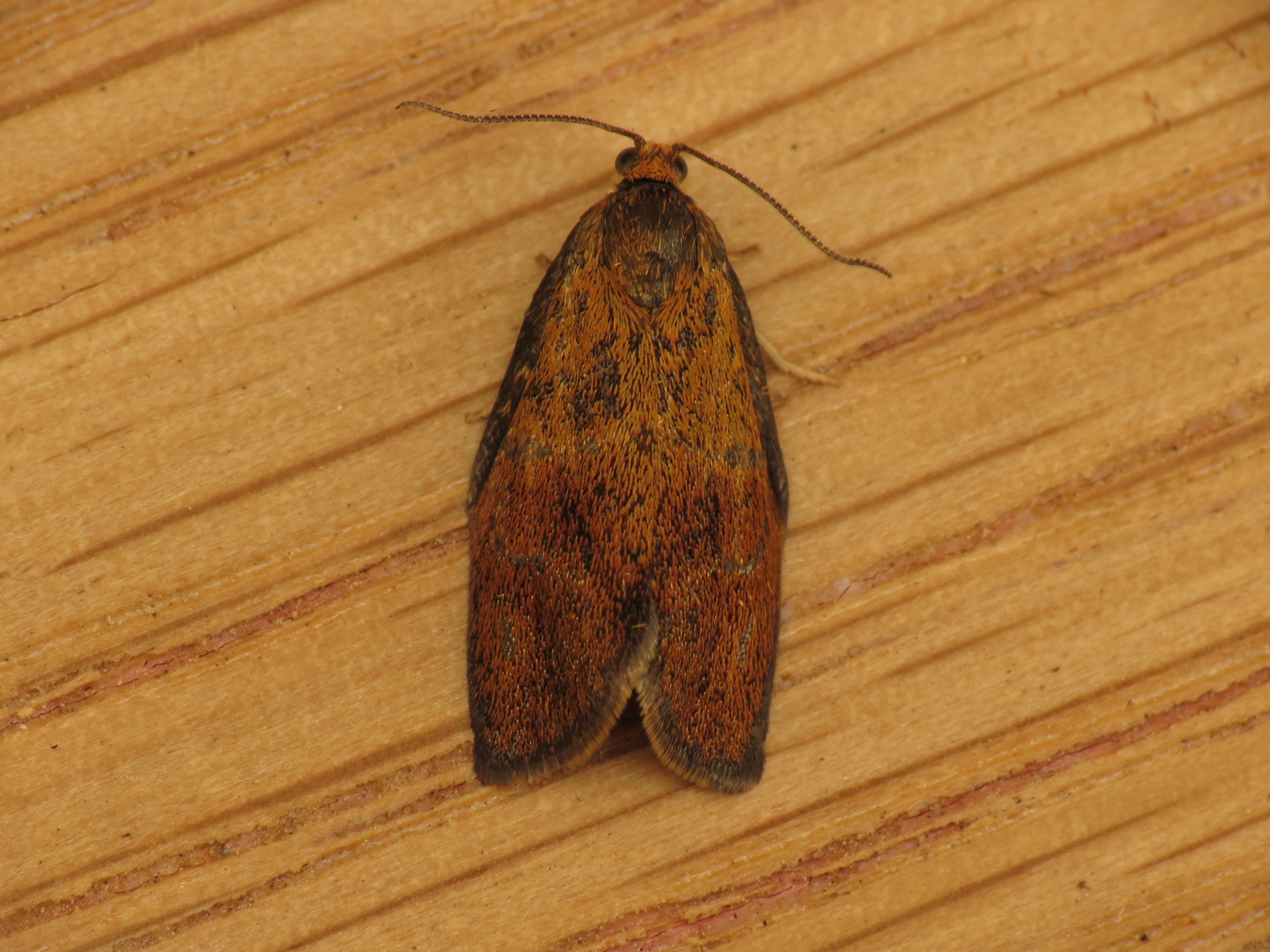 Ptycholoma lecheana (Linnaeus, 1758), to Robinson trap, Hellerup, Denmark, 1/2 June 2013